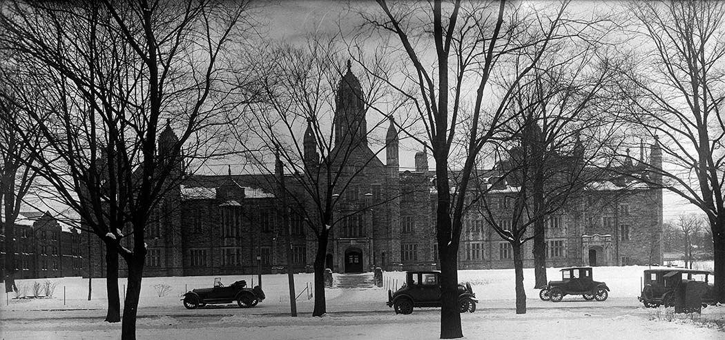 The present Trinity College building photographed in 1928